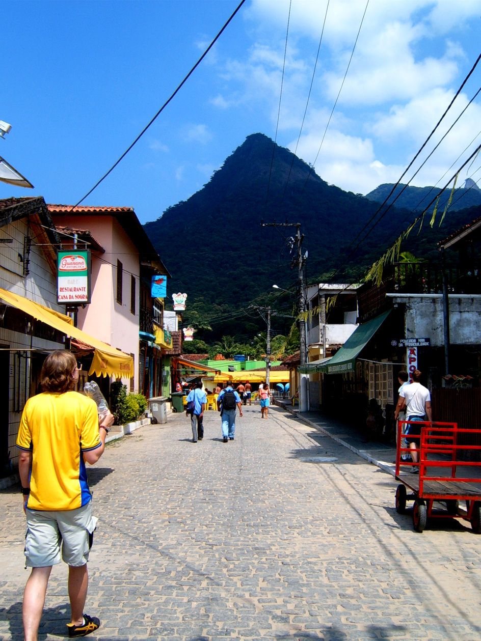 From the biggest city on Ilha Grande, Abraao.